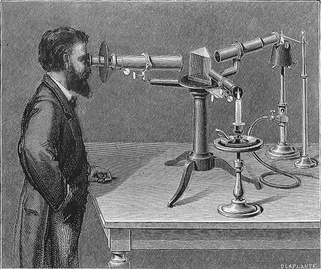 Kirchhoff working with his improved spectroscope